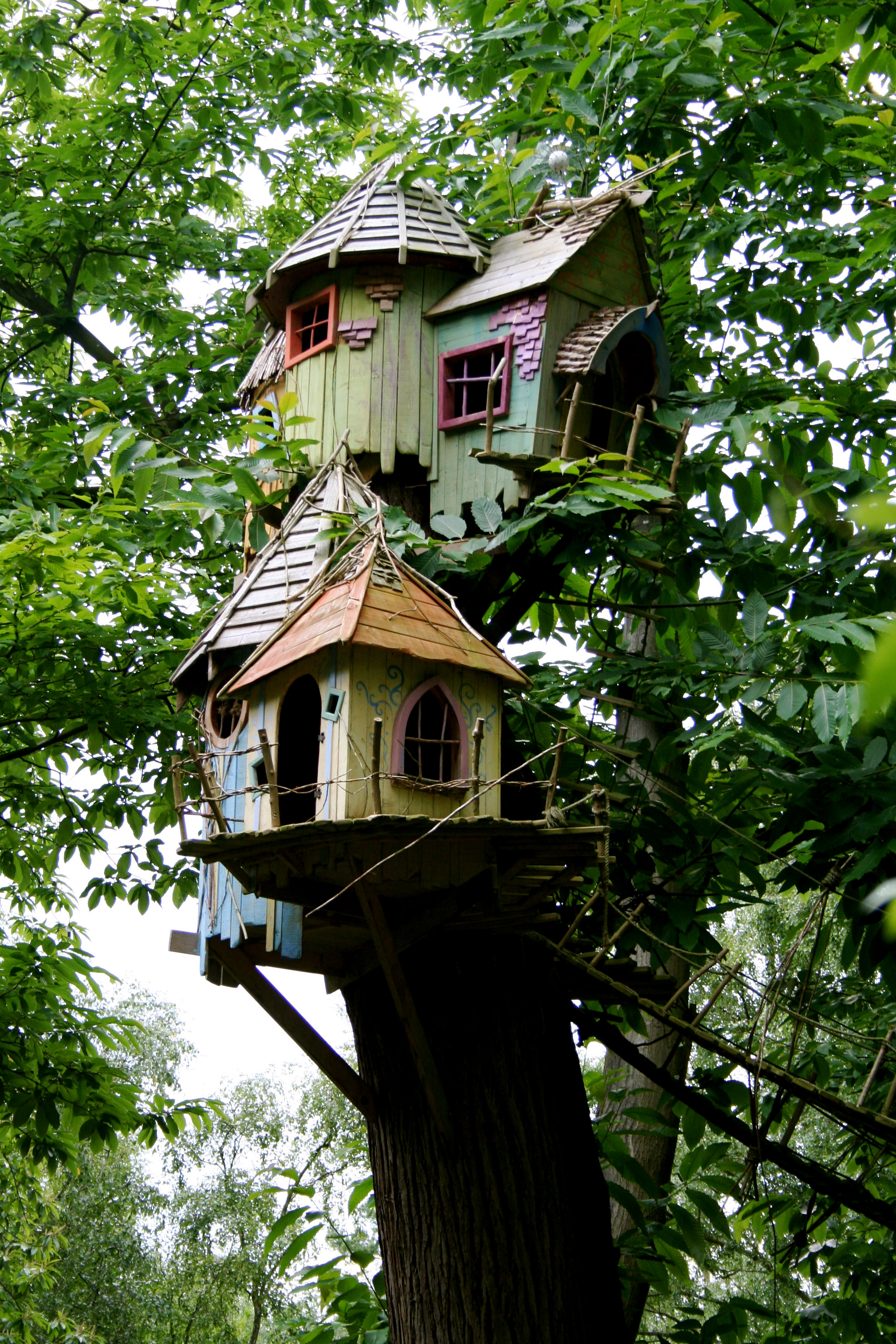 Home of the twiggles at Bewilderwood near Norfolk. High up in the trees above the zip wires